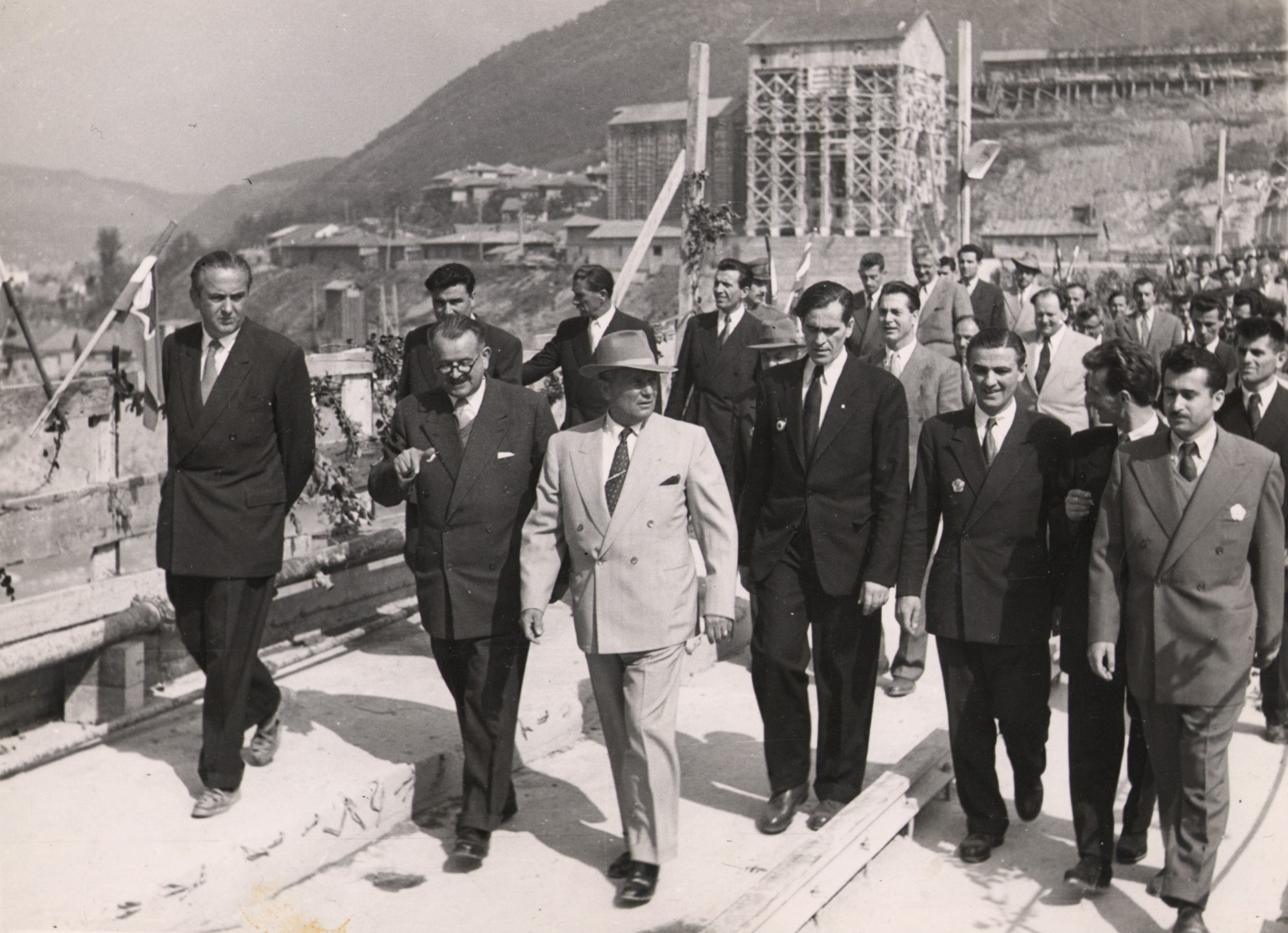 President Josip Broz Tito visited the hydroelectric power plant Đerdap I when it was commissioned on May 16, 1972.